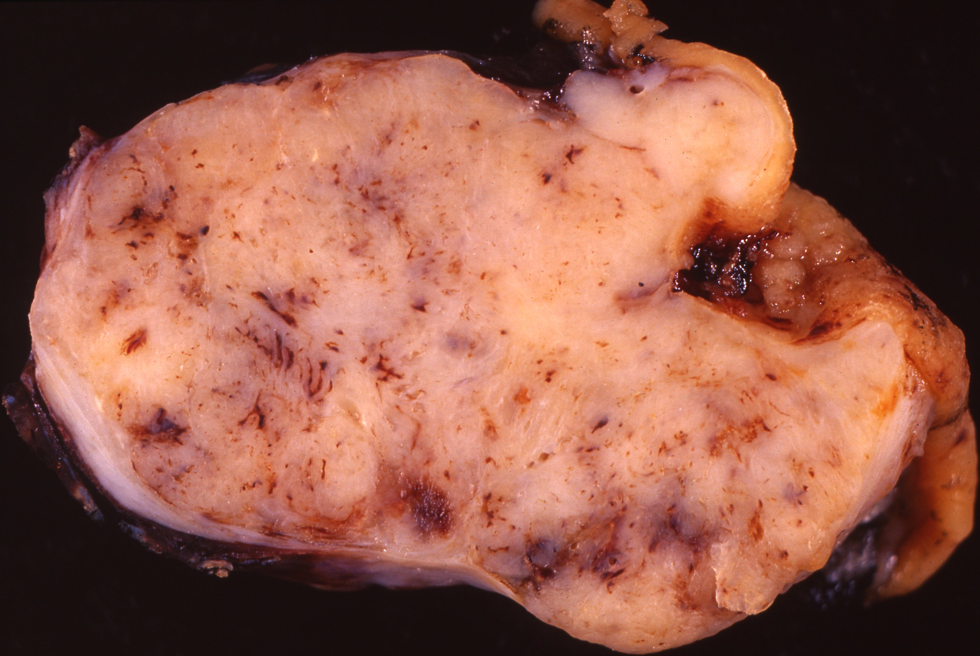 This is a scan of an Ektachrome transparency of a 2001 case. The tumor measured 6.5 cm in greatest dimension and was excised with a margin of uninvolved gastric wall. I do not have long-term follow-up information on this case. Pathological and histological images courtesy of Ed Uthman at flickr.